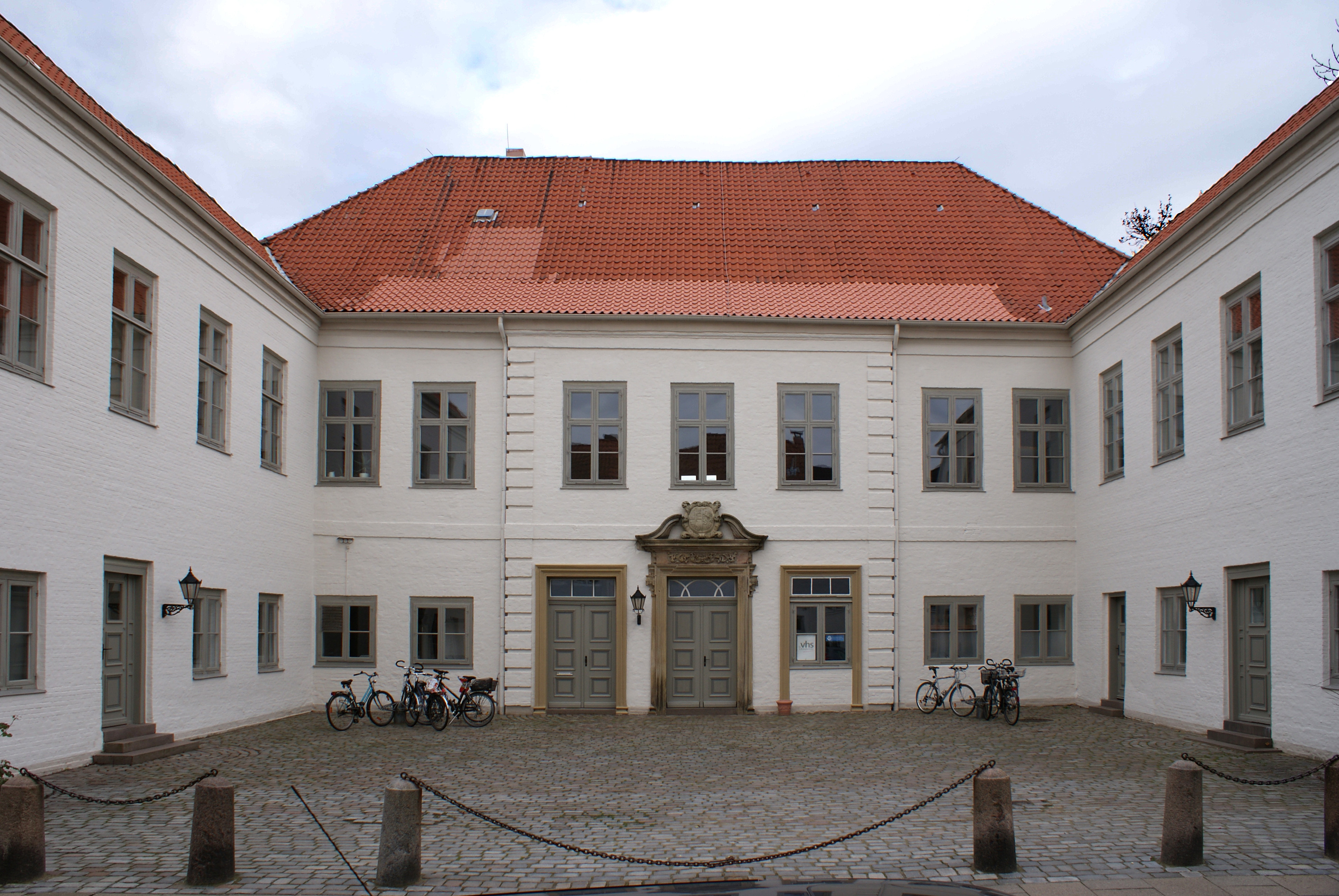 Palais Wasmer, Glückstadt